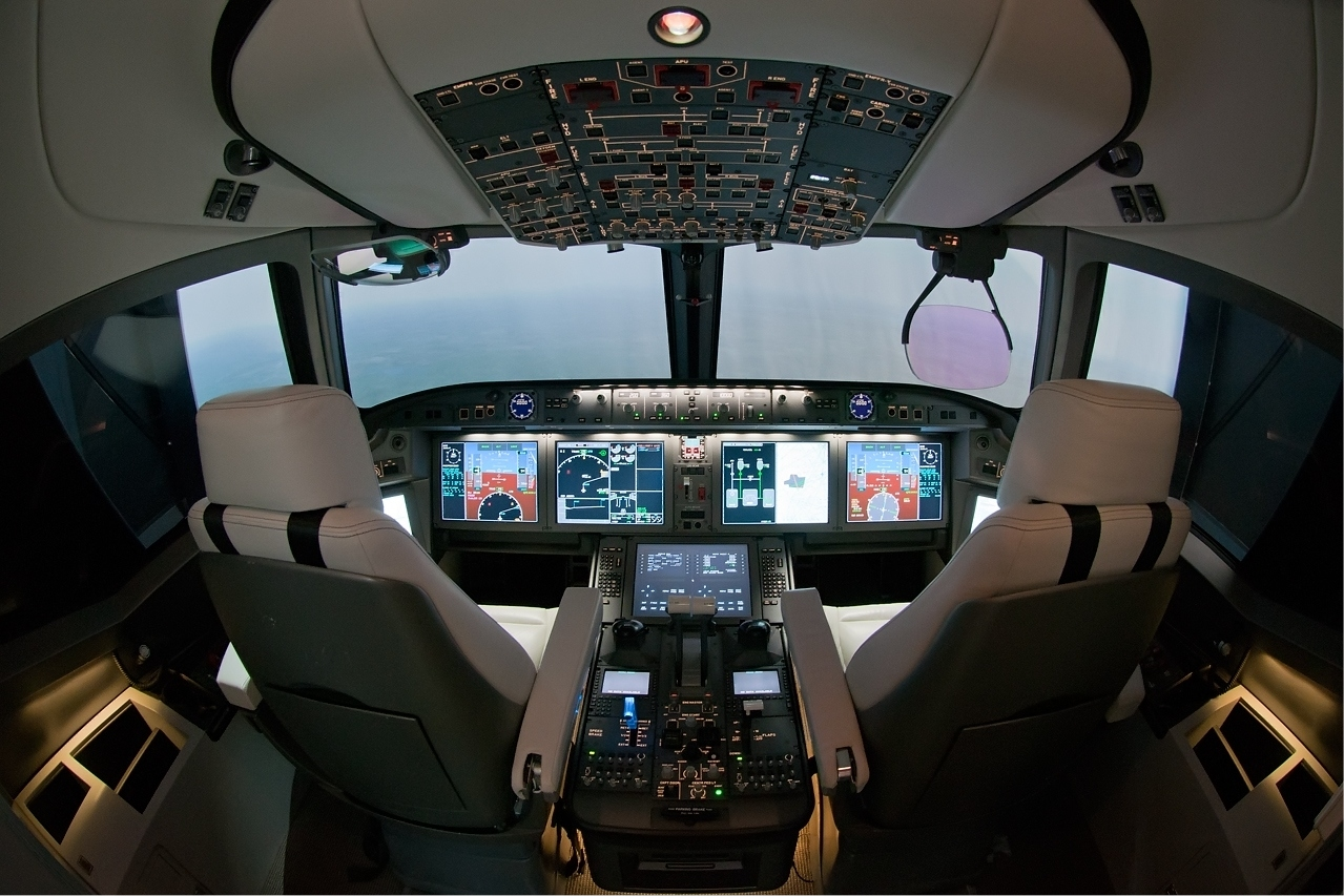 Mock up of the MS-21 cockpit